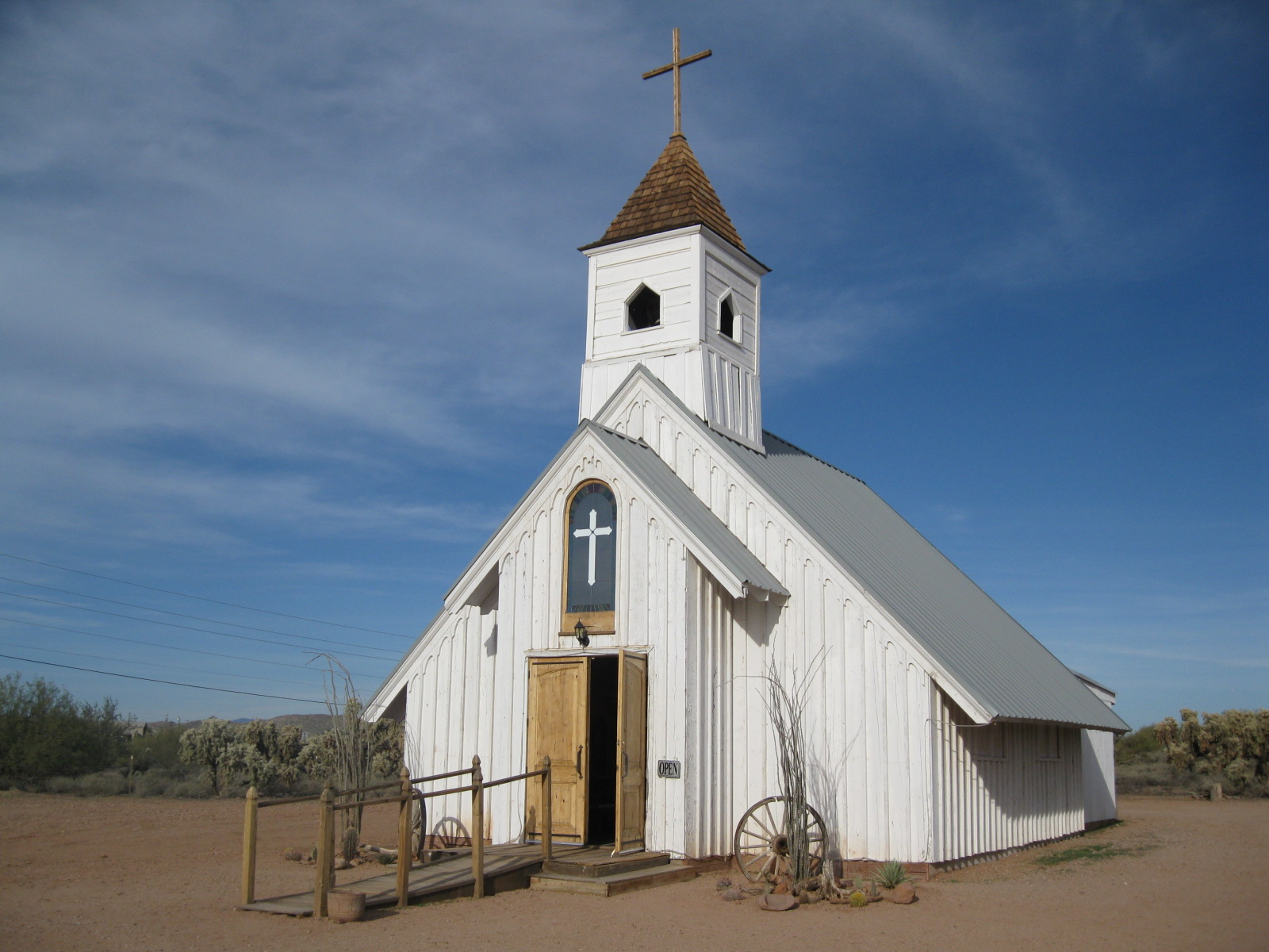 Church at Apacheland Movie Ranch - Arizona. Official website